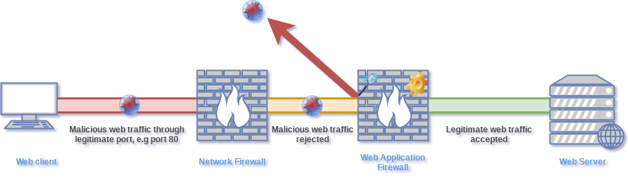 Simple Web Application Firewall Architecture